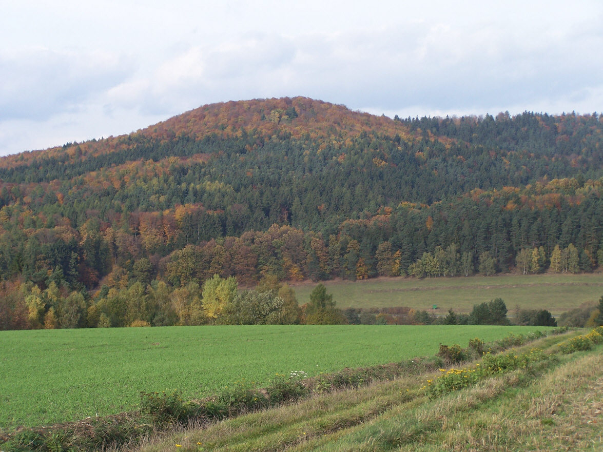 The Stopfelskuppe at Förtha village.